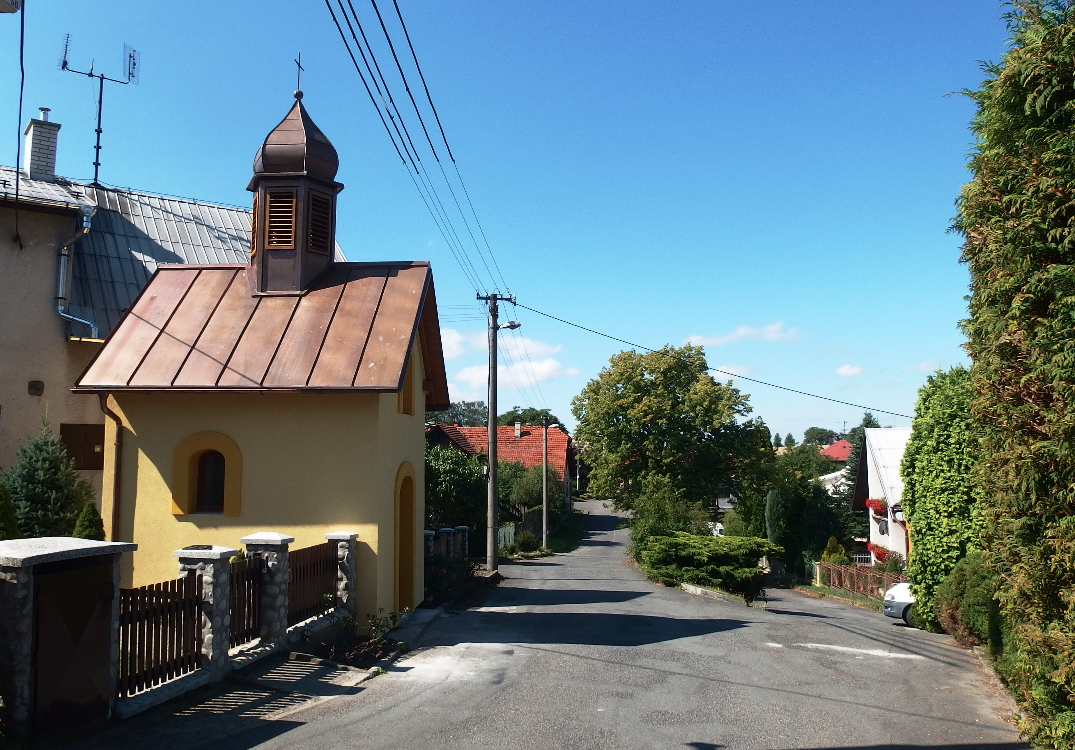 Lešná, Vsetín District, Czech Republic, part Perná.